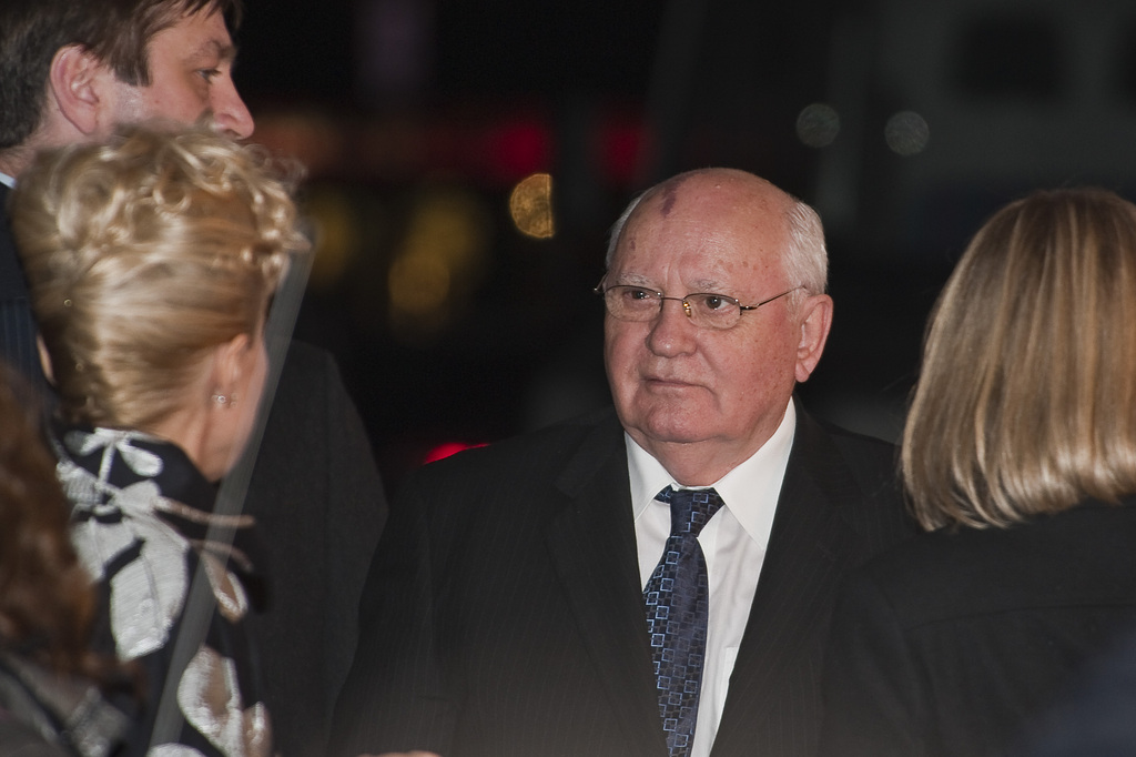 Michail Sergejewitsch Gorbatschow arriving at the Cinema For Peace gala 2010.